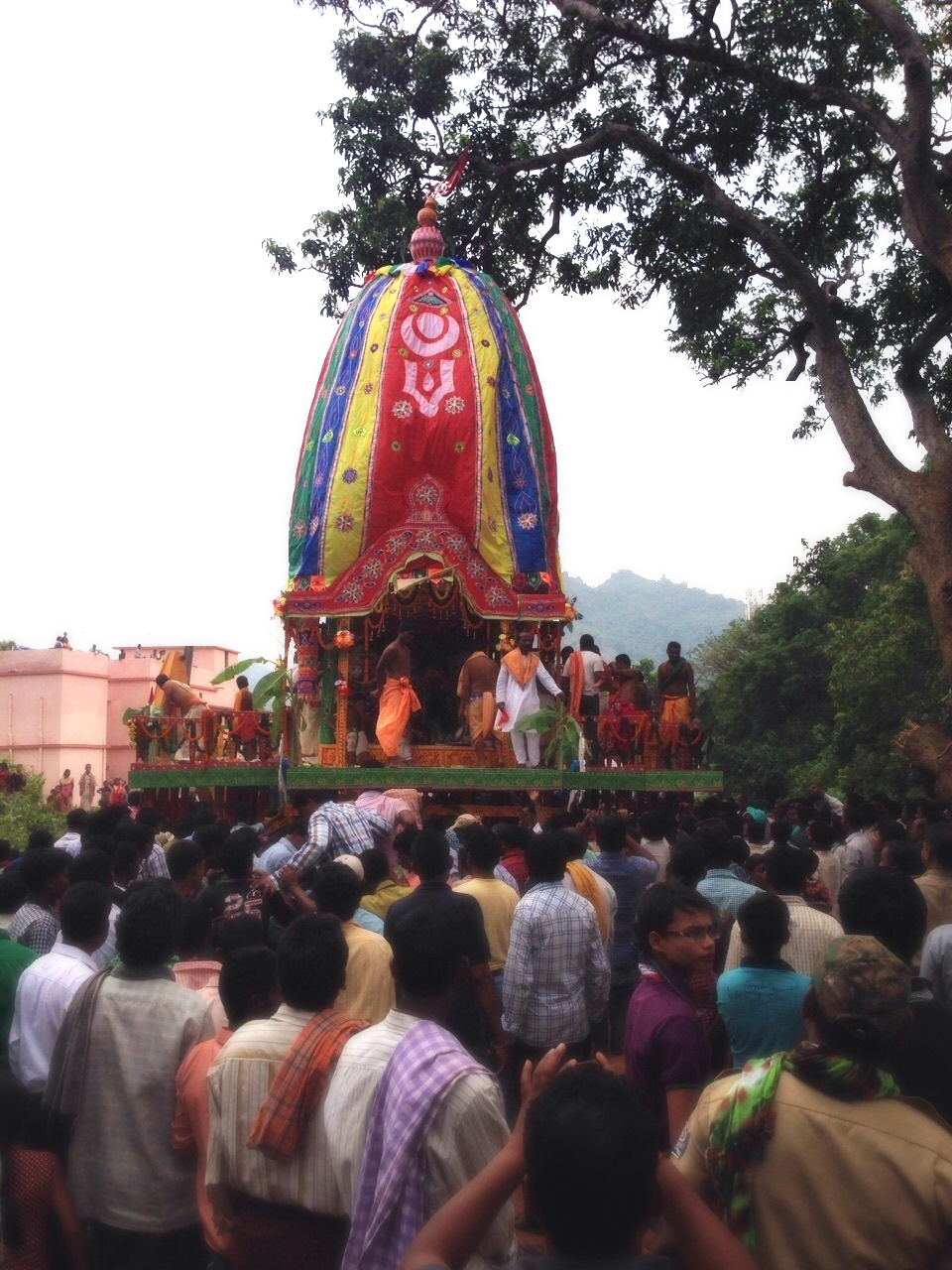 This Photo is Uploaded by Mr. Santosh Sahu